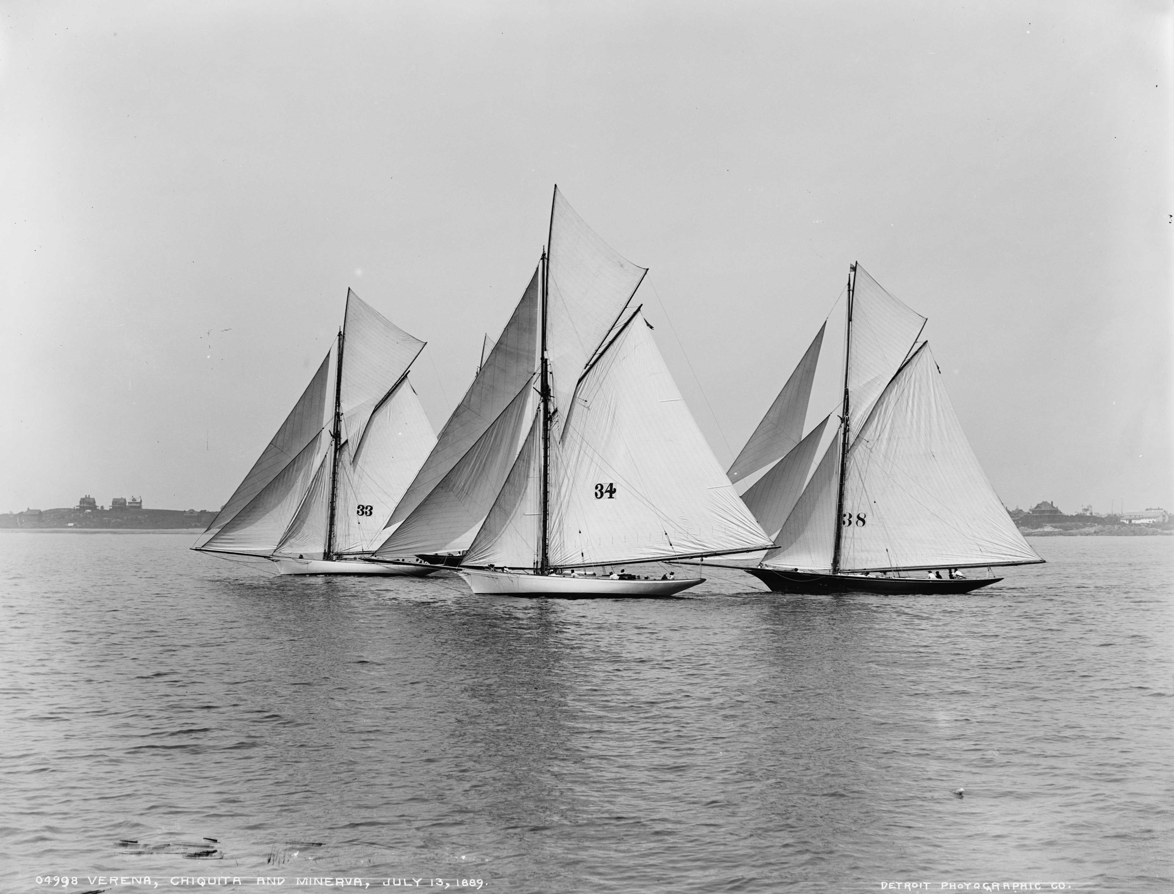 J.A. Beebe's yacht Verena (1889), Augustus Hemenway's yacht Chiquita (1888) (both compromise centreboard sloop designs by Edward Burgess) and Charles H. Tweed's keel cutter Minerva (William Fife design, 1888), pictured in the Hovey Cup, July 13th, 1889. Minerva would finish ahead of all the sloops on that day New York Times - Race for the Hovey Cup - The Scotch cutter Minerva surprises Burgess